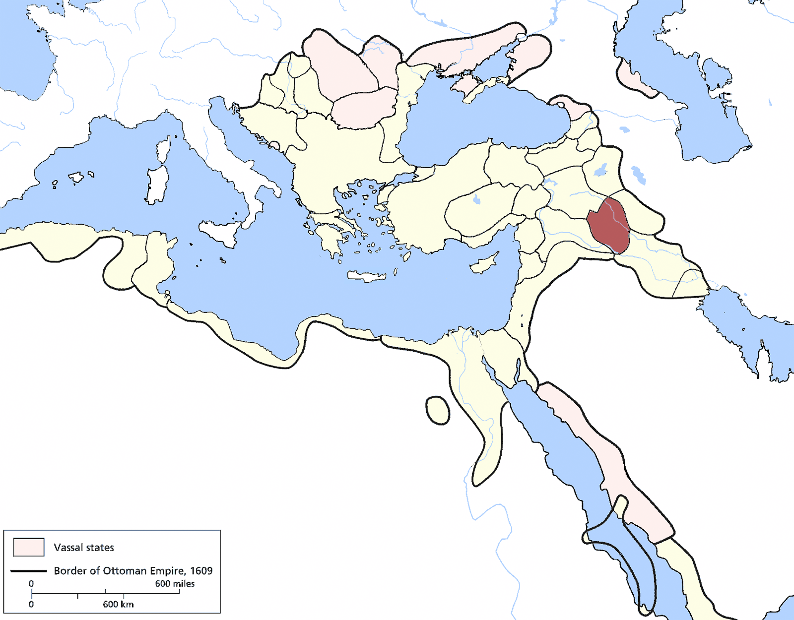 Mosul Eyalet, Ottoman Empire (1609). Source: Encyclopedia of the Ottoman Empire at Google Books By Gábor Ágoston, Bruce Alan Masters